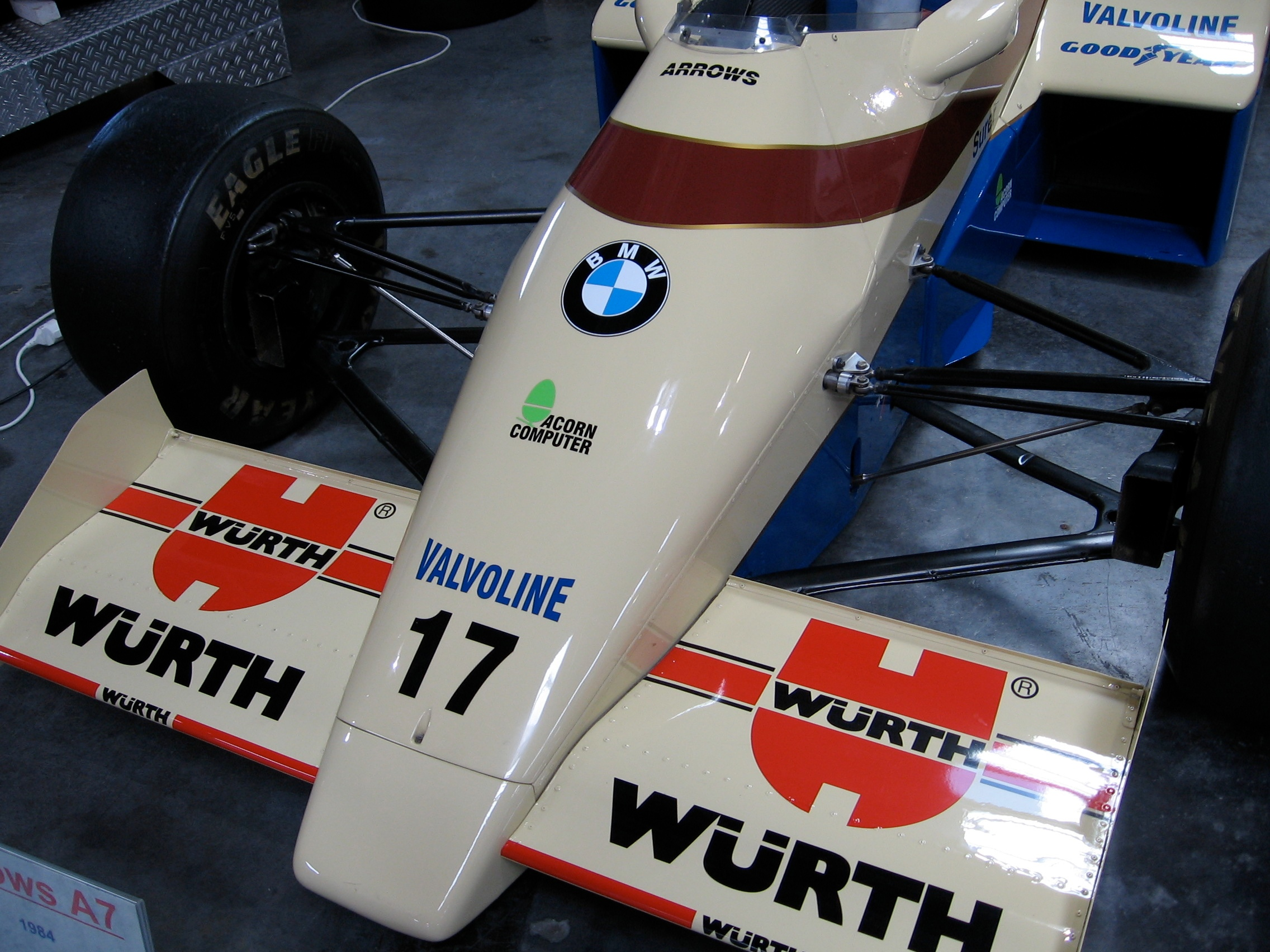 Sinsheim Auto & Technik Museum, Germany - BMW racing car with sponsorship